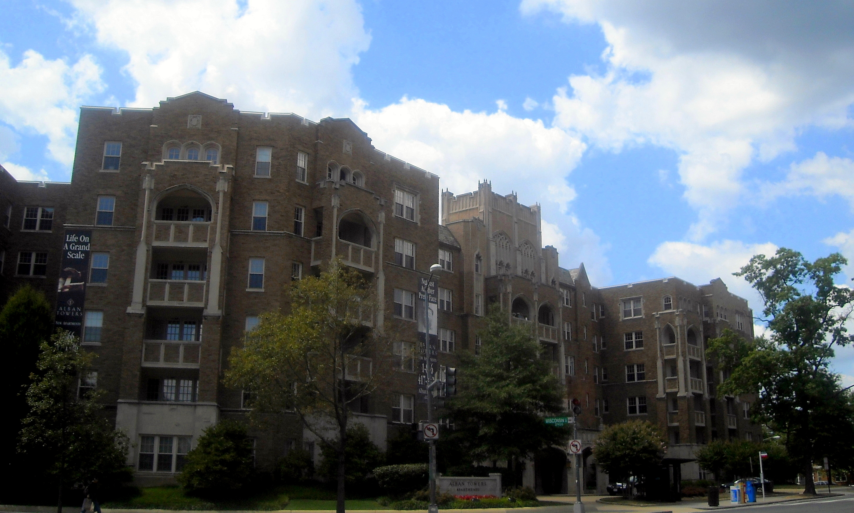 Alban Towers Apartment Building located at 3700 Massachusetts Avenue, NW in the Cathedral Heights neighborhood of Washington, D.C. Designed by architect Robert O. Scholz in 1928, the Tudor Revival building is listed on the National Register of Historic Places.